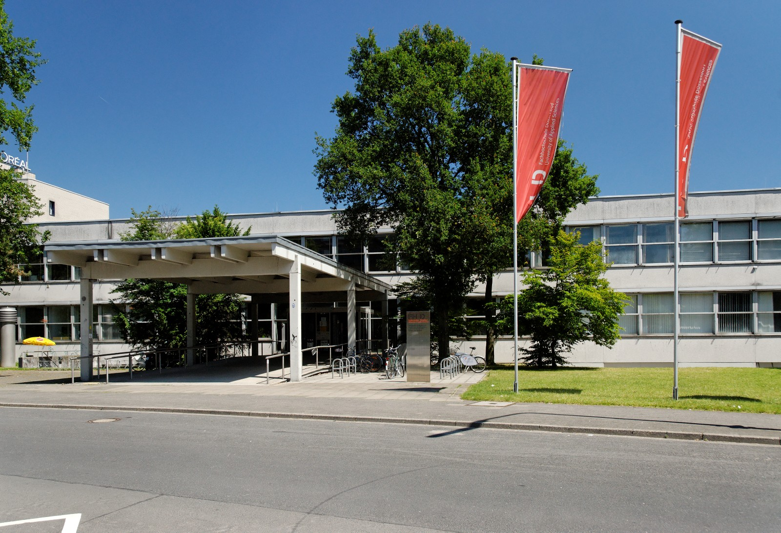 University of Applied Sciences in Düsseldorf-Golzheim, Germany